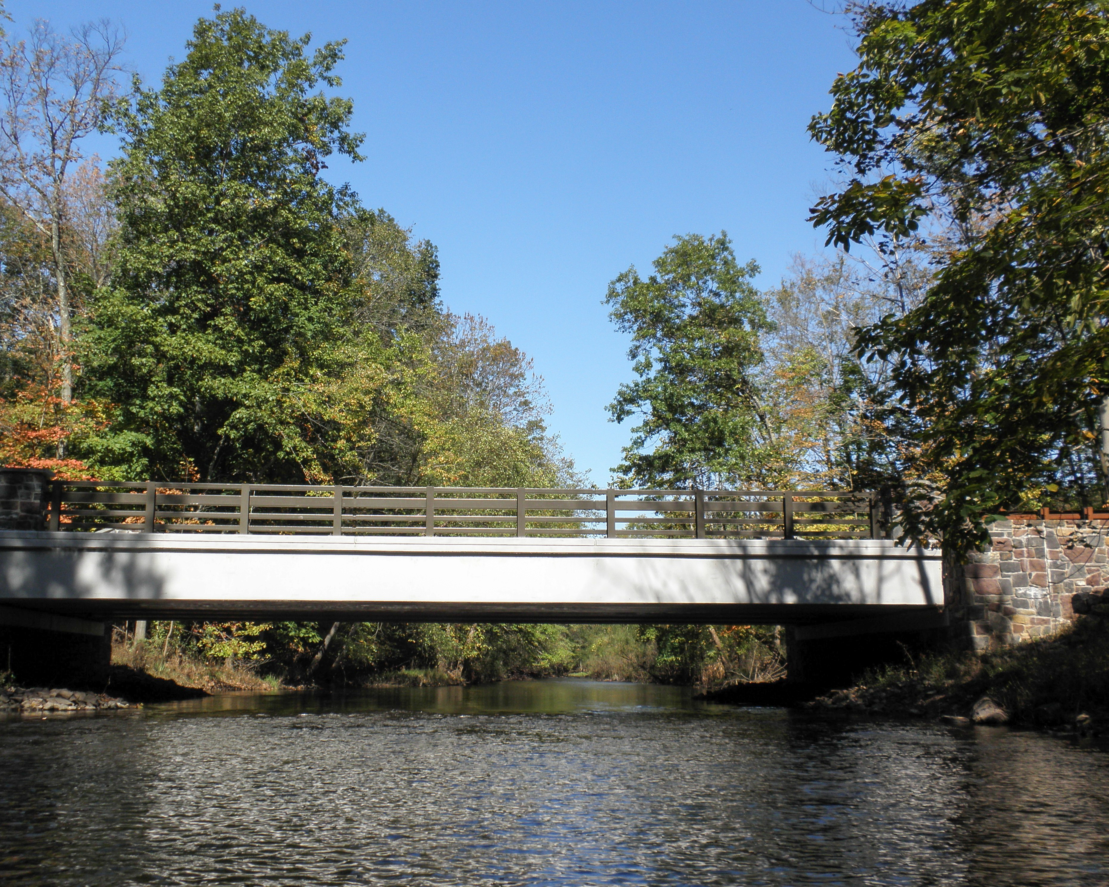 Stone House Road Bridge over the Passaic River, Millington - Bernards Township, New Jersey (looking north by kayak)